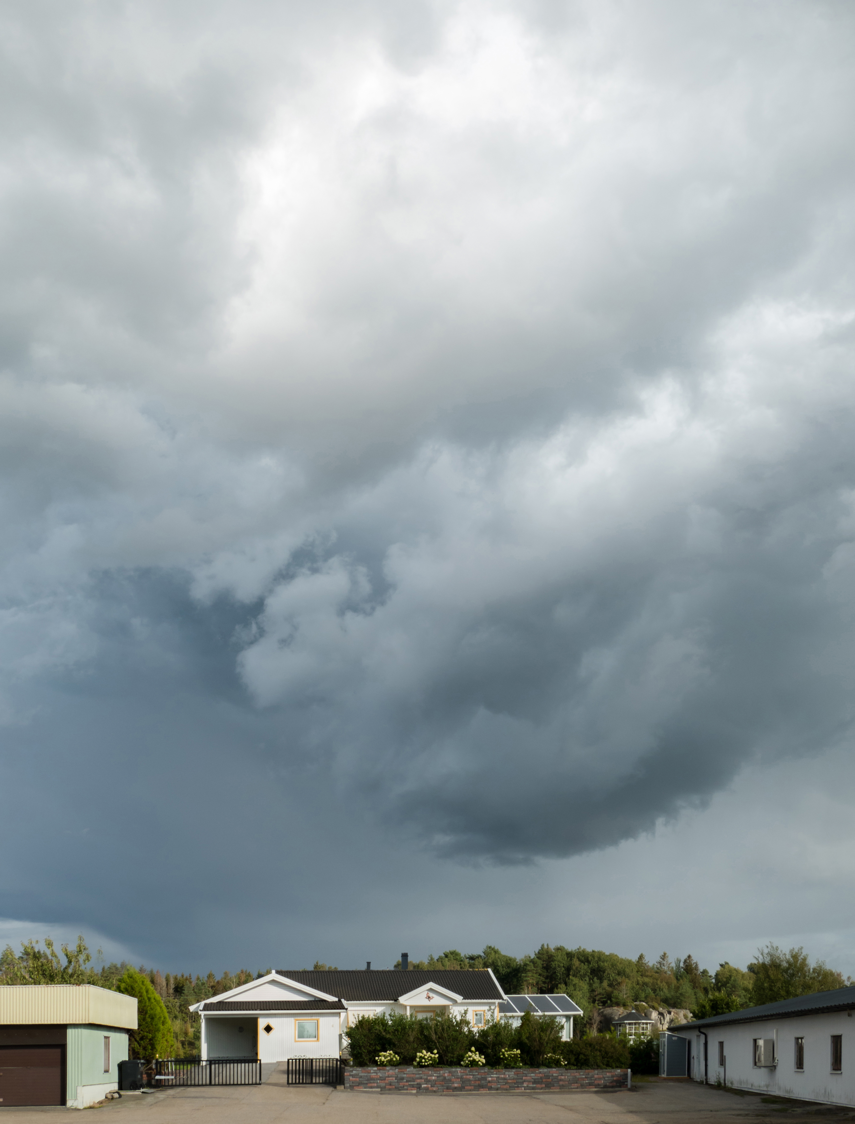 Incomming thunder clouds, rain and thunder over a house in Gåseberg, Lysekil Municipality, Sweden.